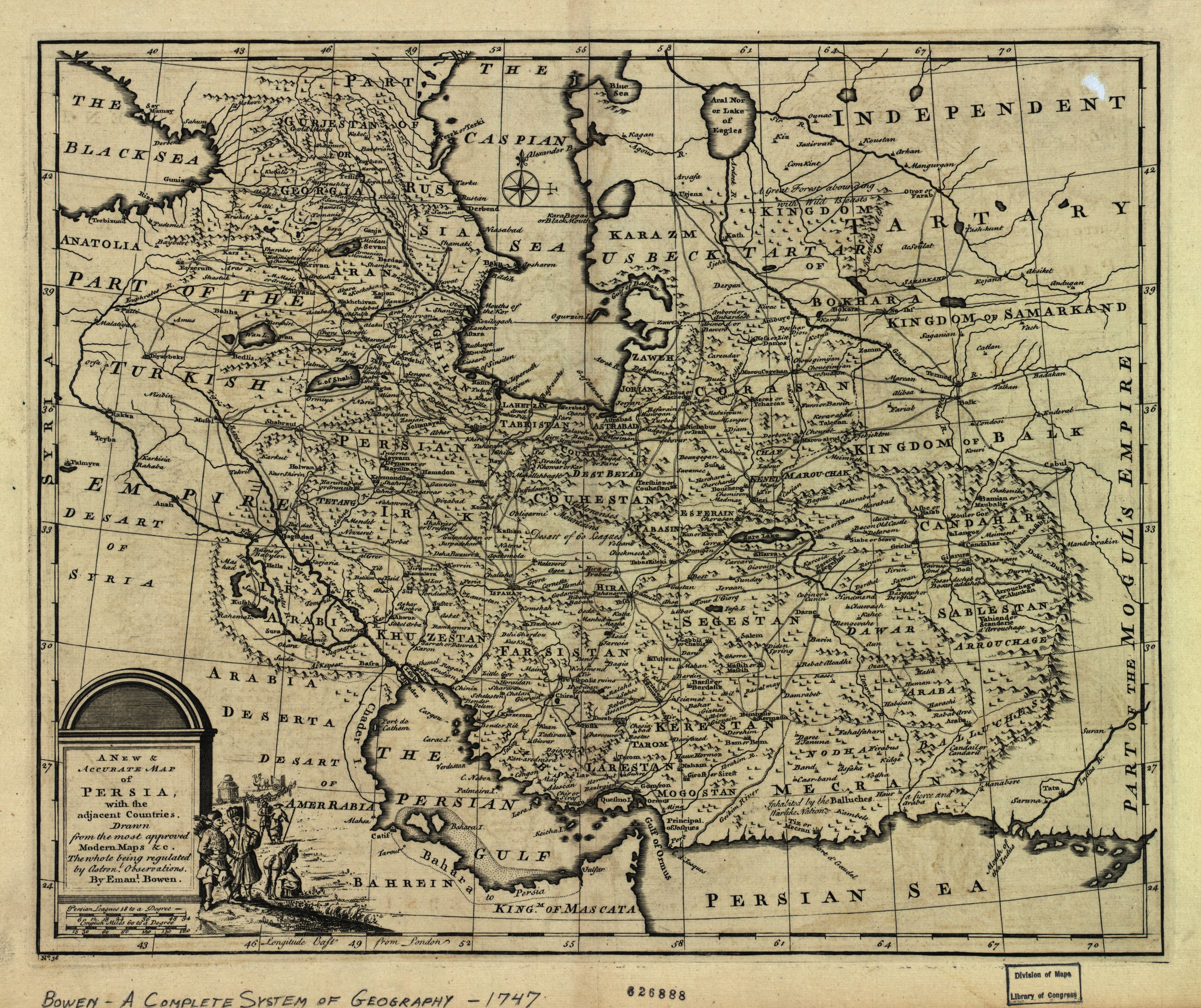 The map of the Persian Empire in 1747 at the time of Afsharid Dynasty. a complete system of geography.